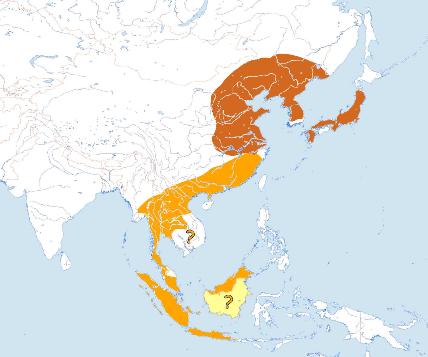 Lanius tigrinus - distribution map, brown: breeding areas, orange: wintering areas